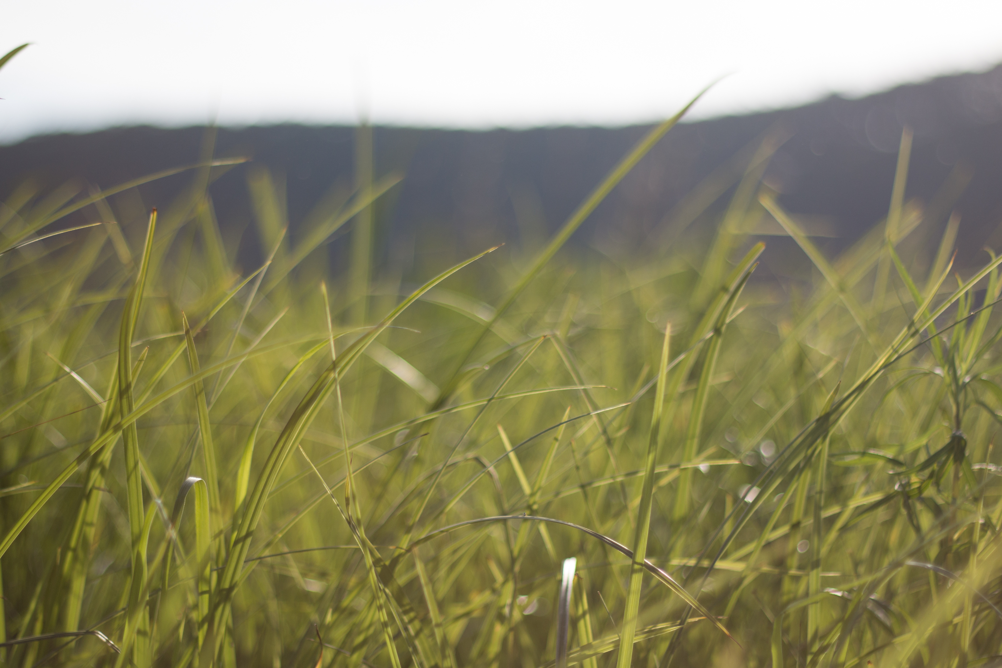 Grass in summer